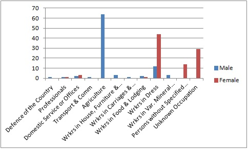 Occupation Structure of the Parish of Willoughby Waterleys from the 1881 Census from 24 Occupation Orders, both sex